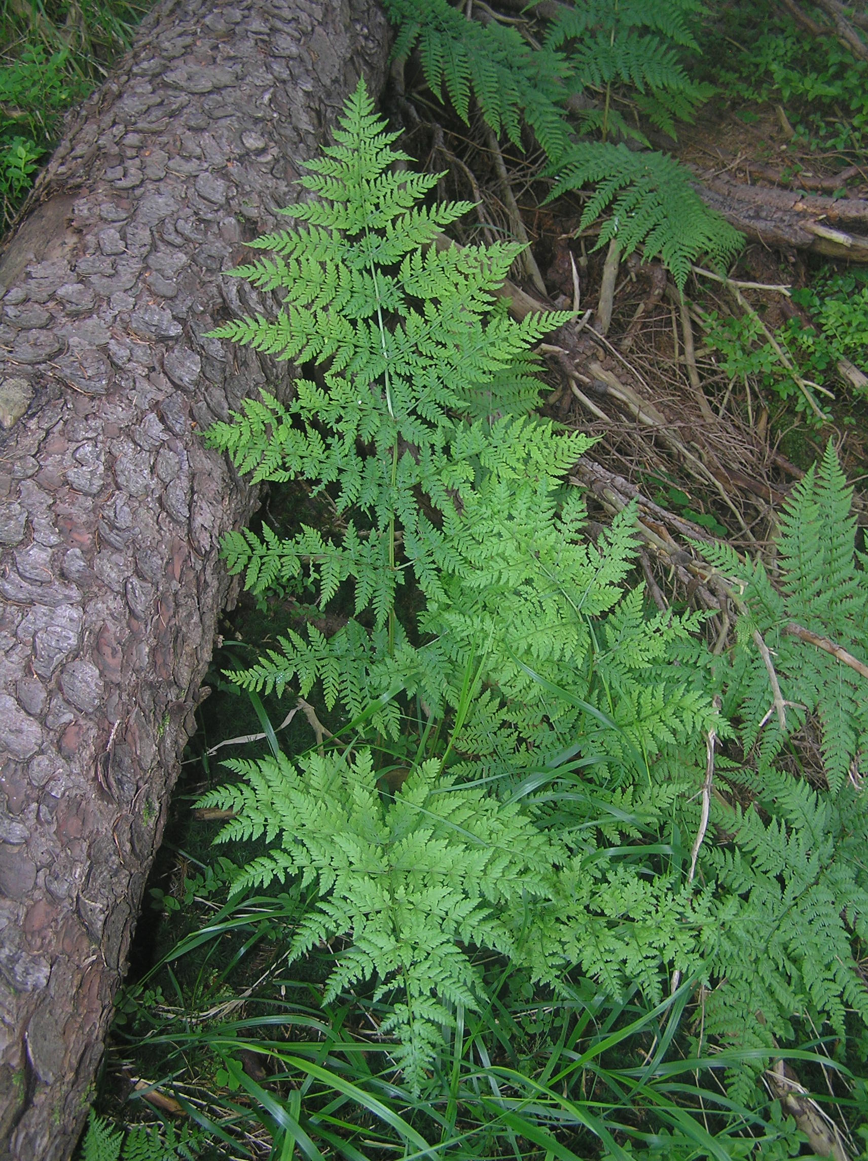 Dryopteris expansa, Králický Sněžník, Czech Republic